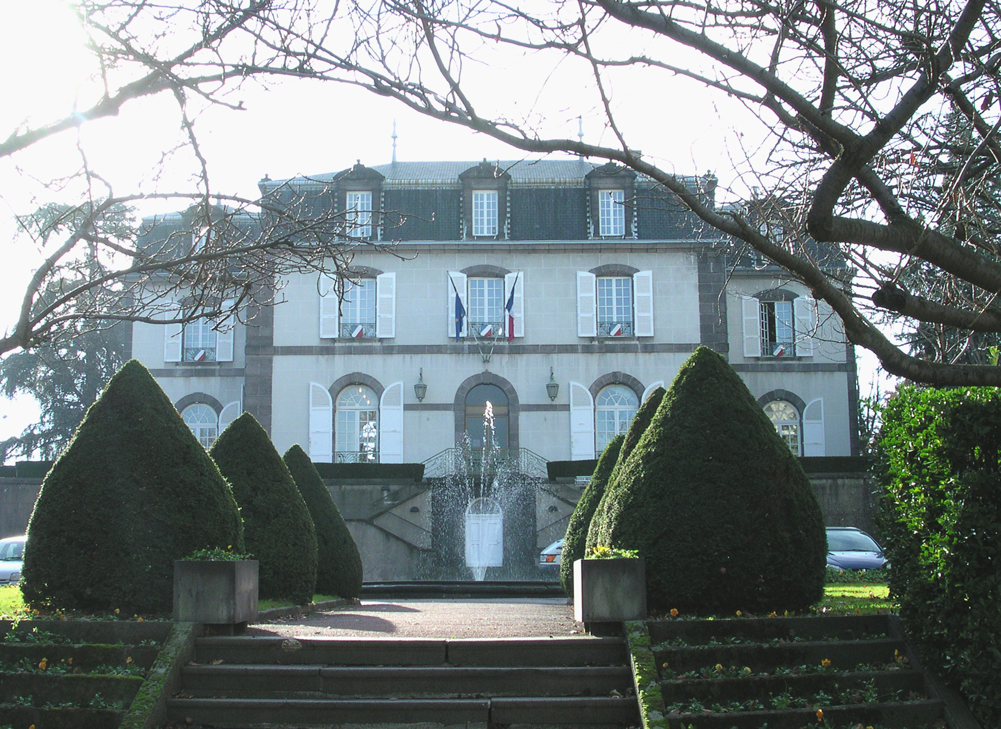 Chamalières City council (Puy-de-Dôme, France)